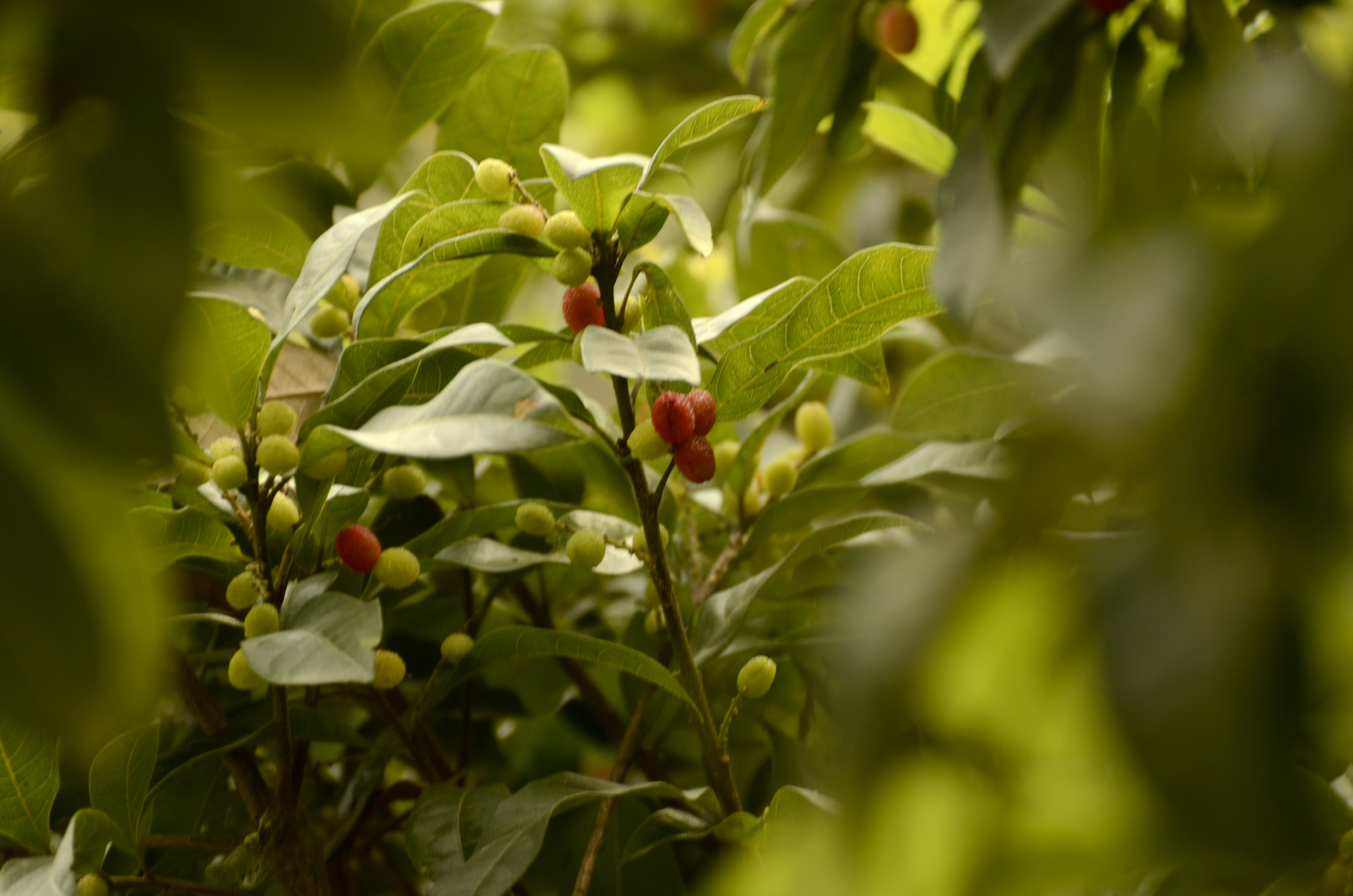 unripe and half ripe fruits of Myrica esculenta_Box myrtle tree_